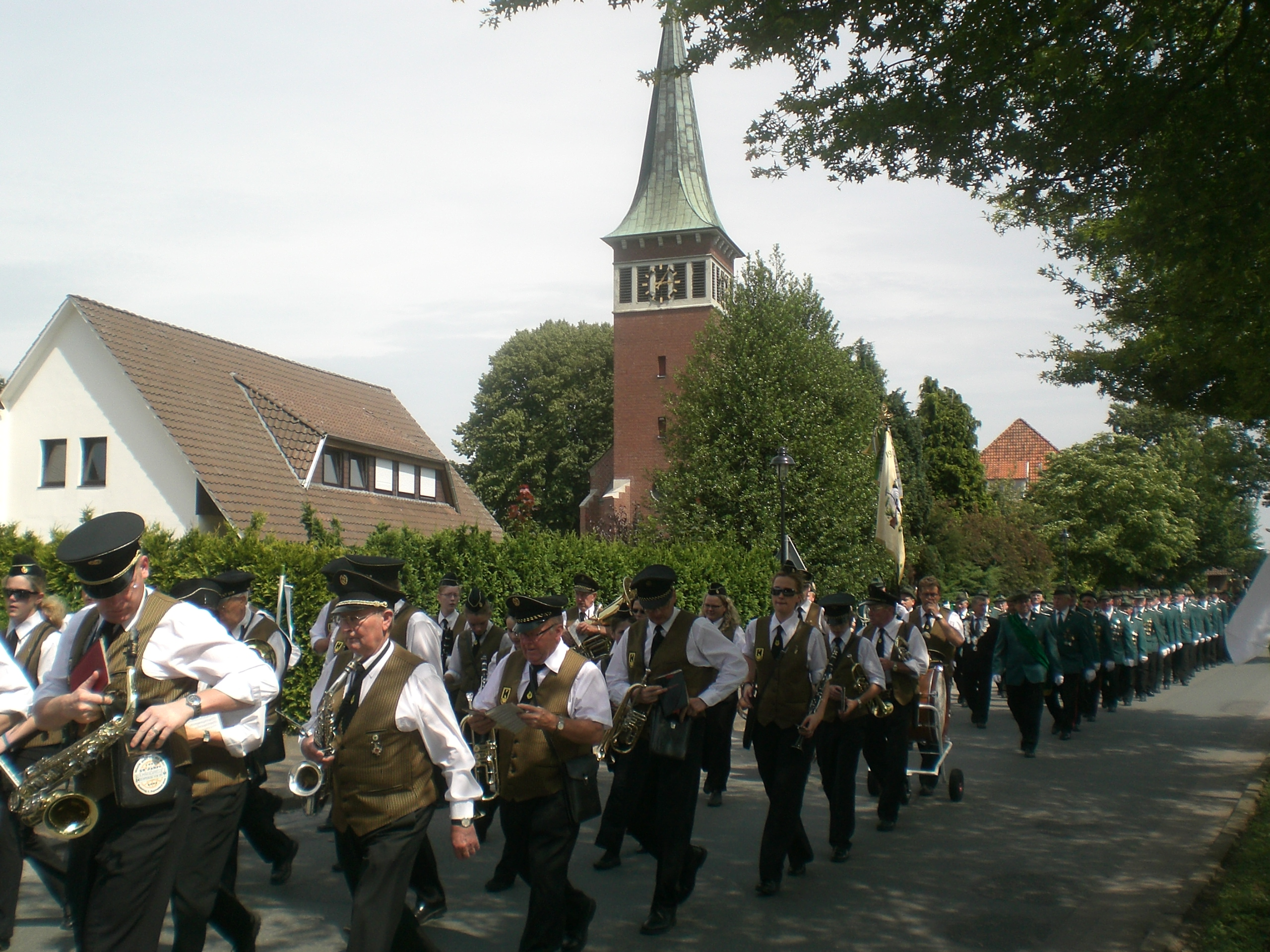 marksmen's festival in Rüschendorf, Damme, Lower Saxony, Germany